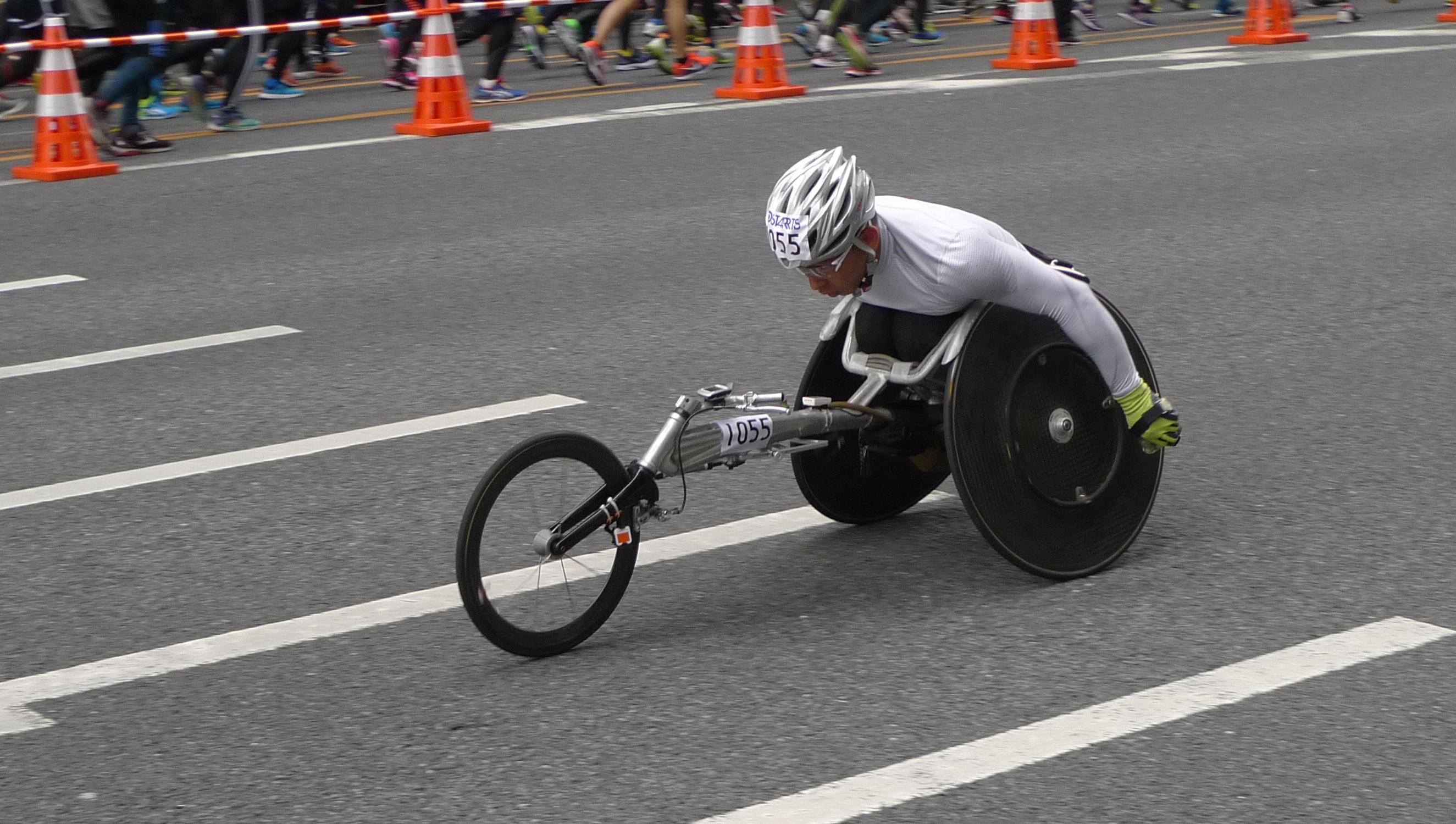 Tokyo Marathon 2018 wheelchair racer 1055 - 田中 誠治 (Seiji Tanaka)